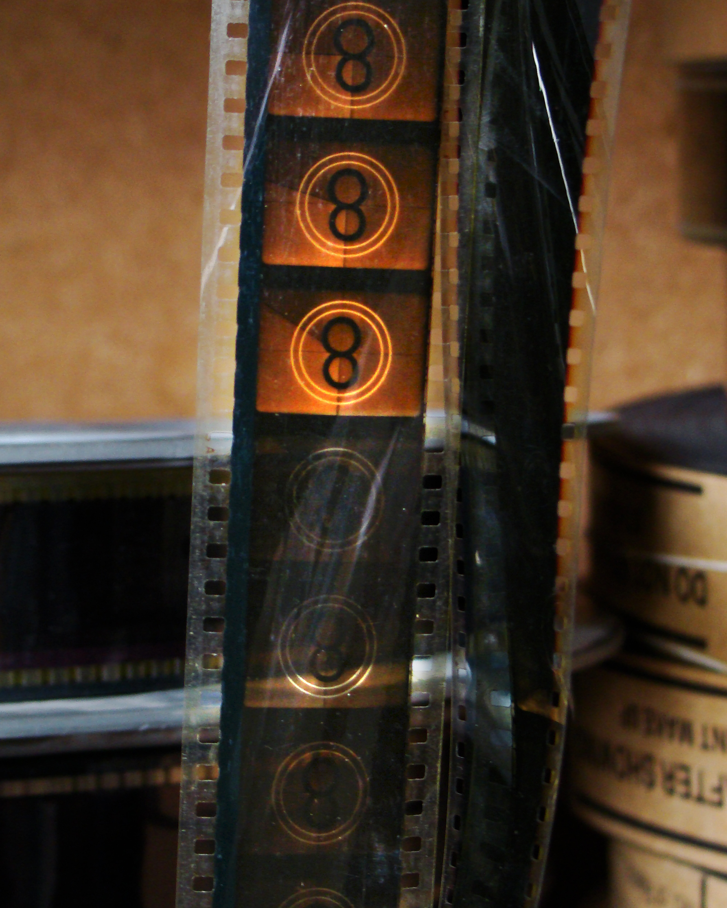 "8" on the start of a film reel for the projection.